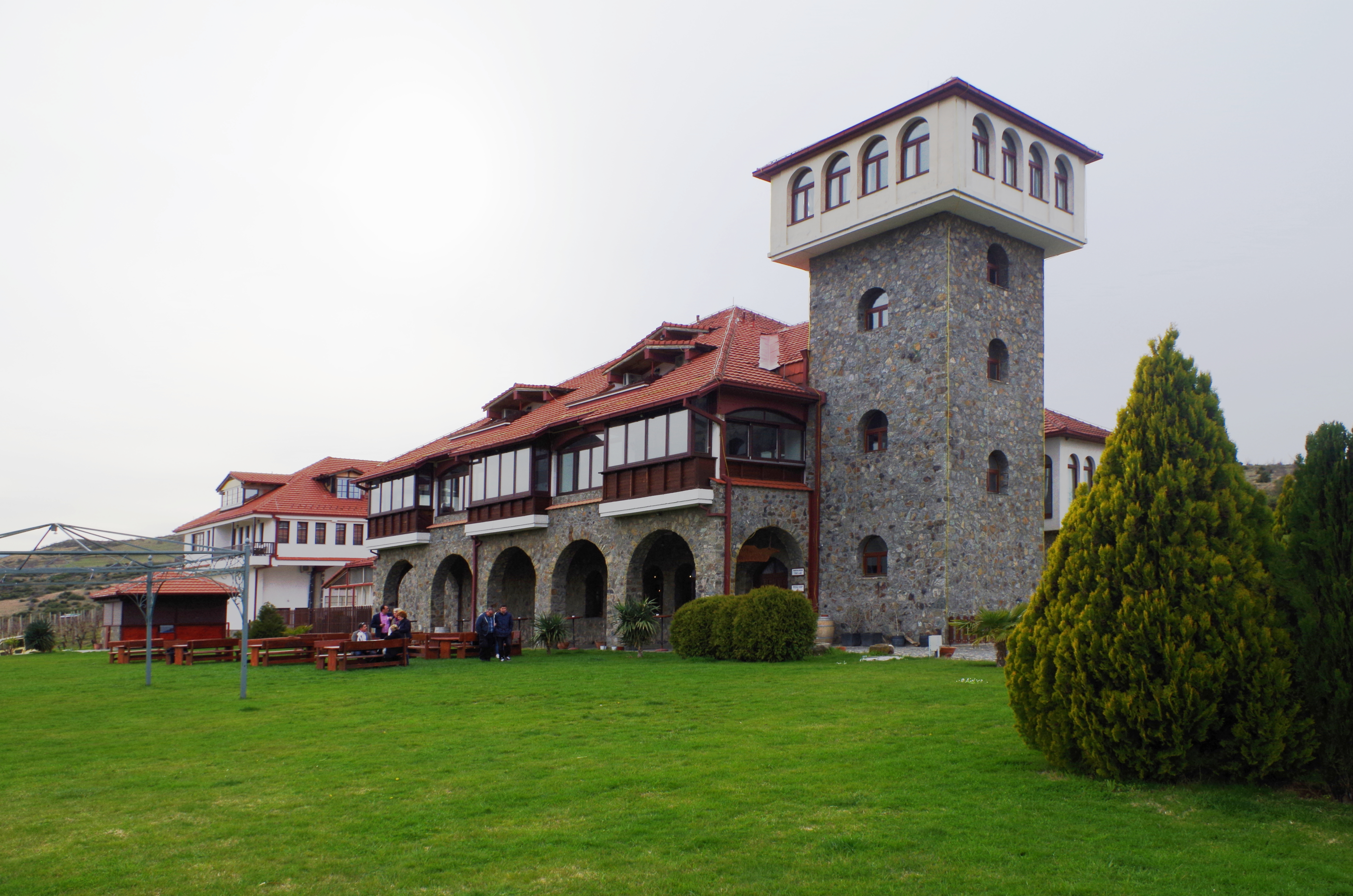 Winery "Popova Kula", near Demir Kapija